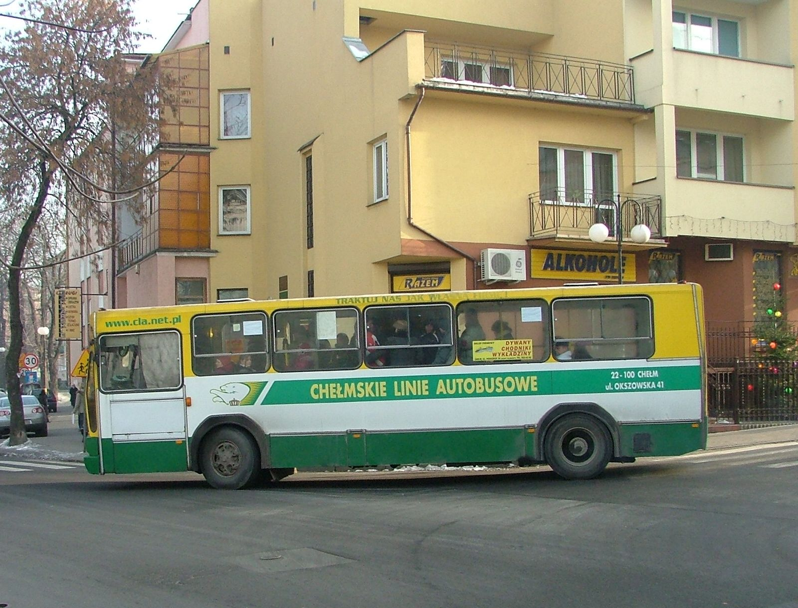 Jelcz M11 bus. Szkolna Street in Chełm, Poland. Year buy 1997. Chełmskie Linie Autobusowe company.